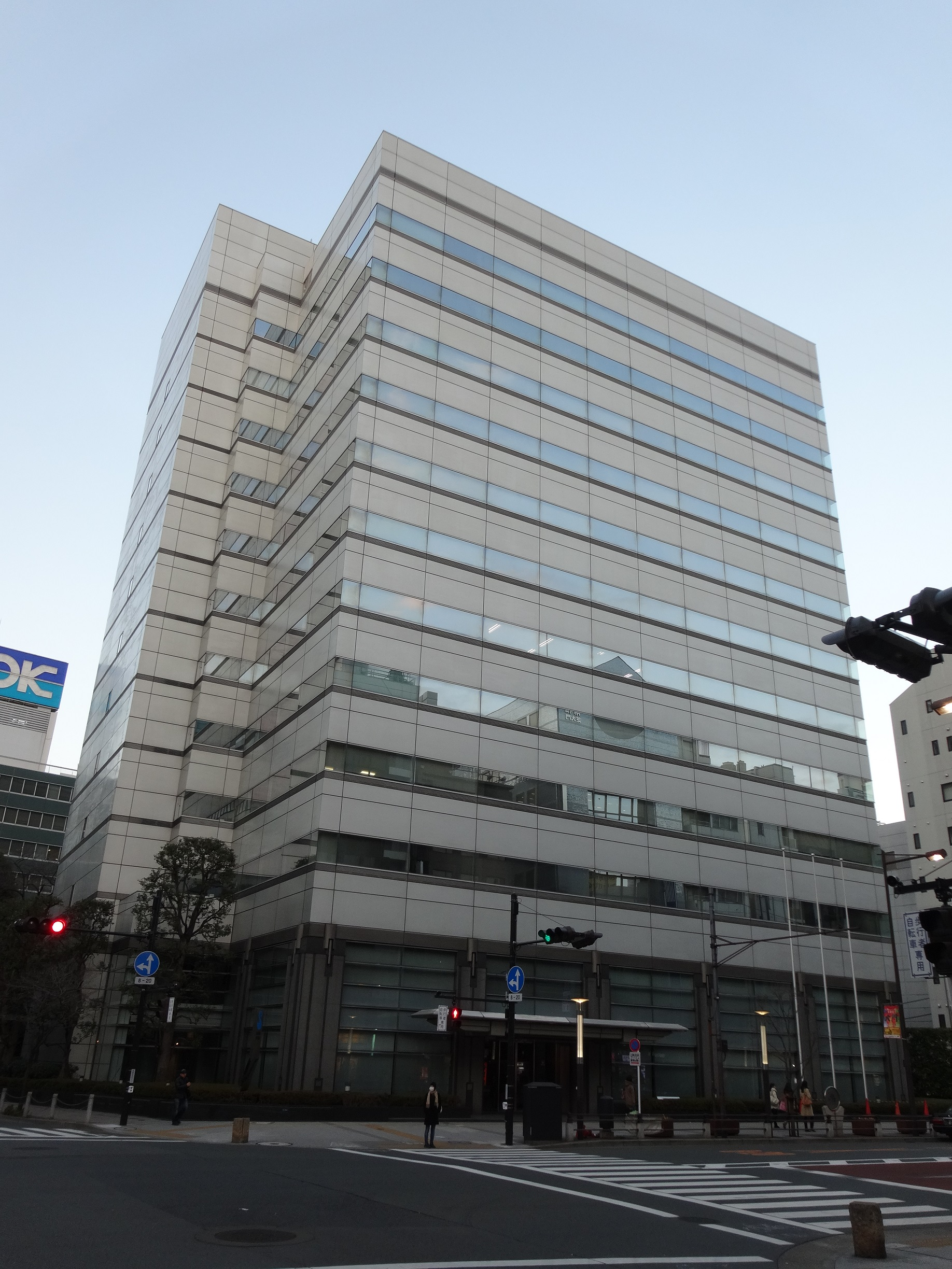 Showa Denko the herd office(Minato-ku Tokyo,Japan)